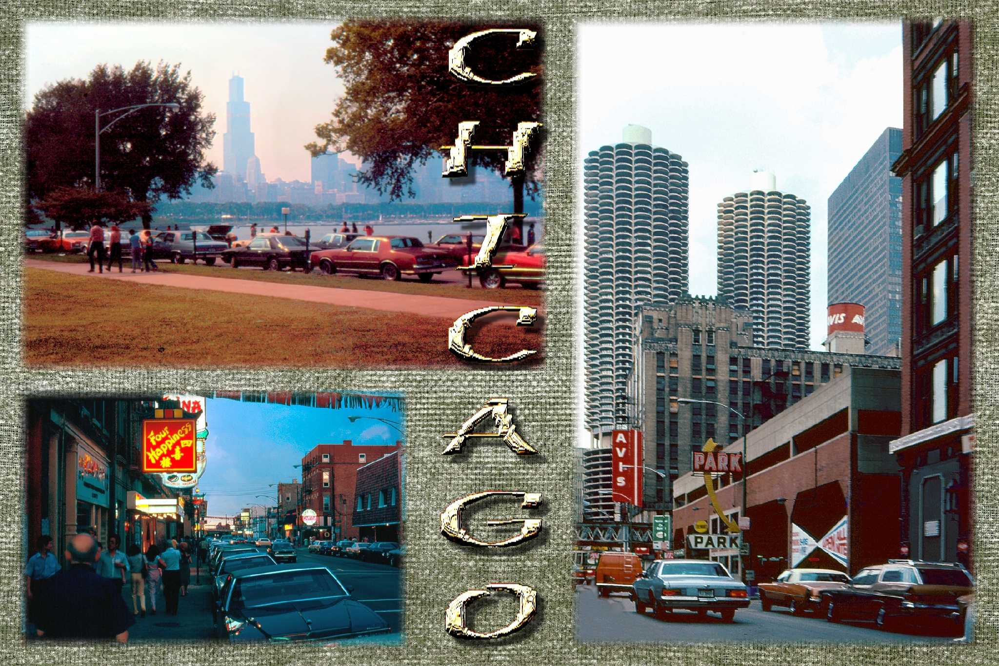 Postcard (1981) designed by Wuhazet